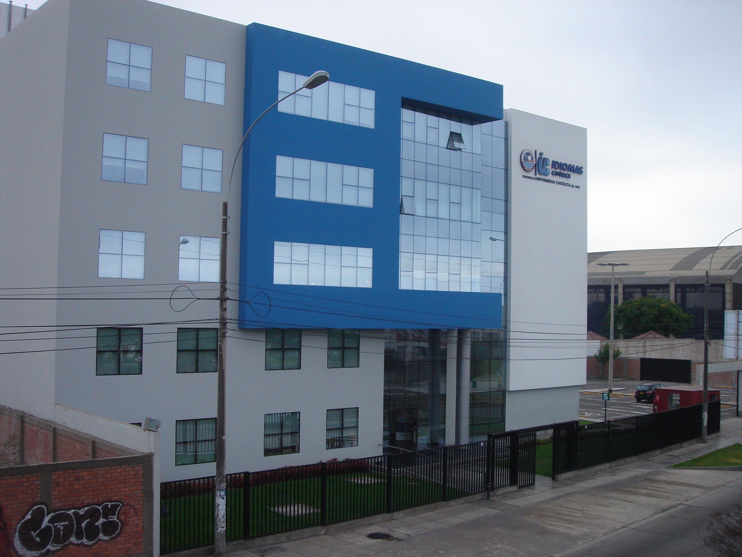 Language Center, Pontifical Catholic University of Peru. Pueblo Libre District, Lima (Peru)